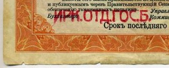 Stamp Irkutsk on 200 rubles 1917.jpg